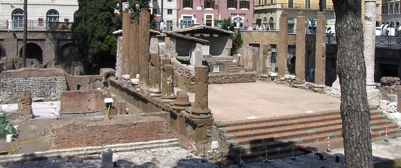 "taken by me, but it's not at an article, I uploaded it so I could ask what the ruins were called" - said Adam Carr. The photo is public domain so if there is an article it can be attached to, feel free. Adam 02:00, 28 Mar 2005 (UTC). It is the Largo di Torre Argentina, Roman ruins in Rome, on the Campus Martius, the place where Julius Caesar was stabbed. Temple A (to Juturna), with part of Temple B on the left. On the back, the modern Teatro Argentina.